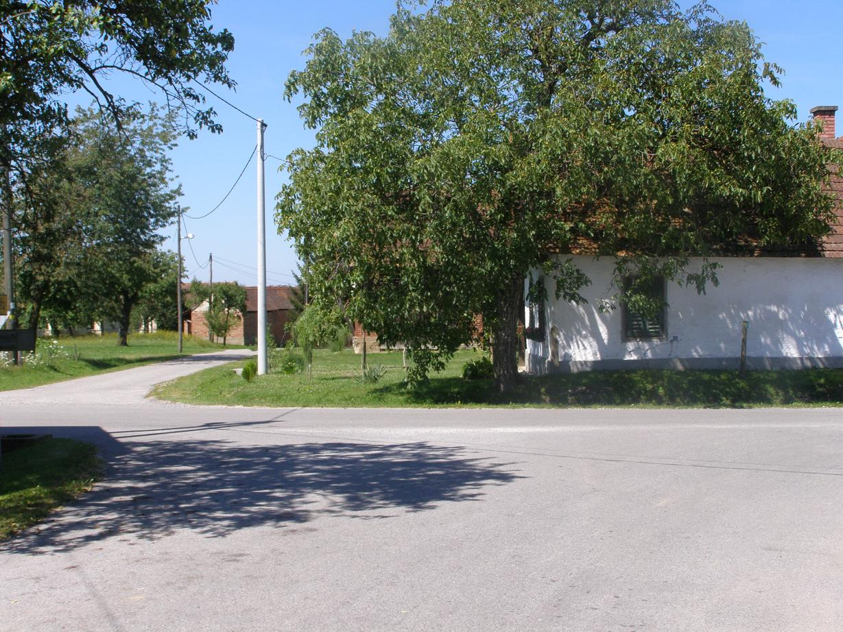 Šalamenci, village into the Prekmurje